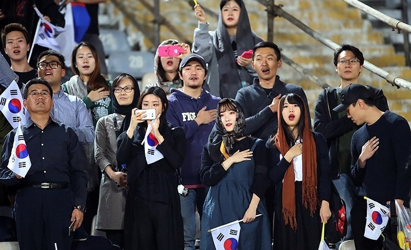 Korean women (People) at Tehran's Azadi Stadium. Football match between Iran and South Korea.